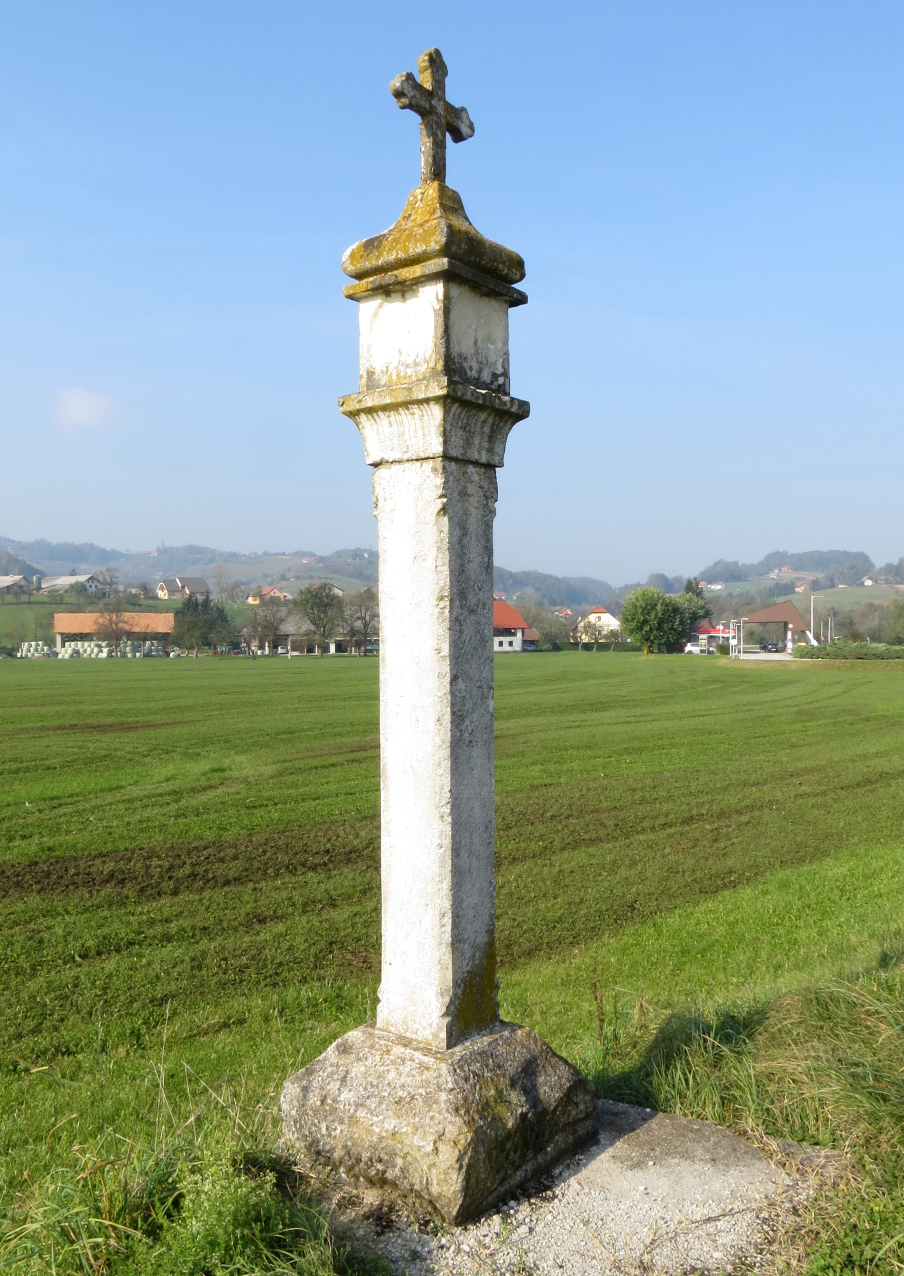 Column with cross commemorating the plague of 1645 and 1646 in Bistrica ob Sotli, Municipality of Bistrica ob Sotli, Slovenia